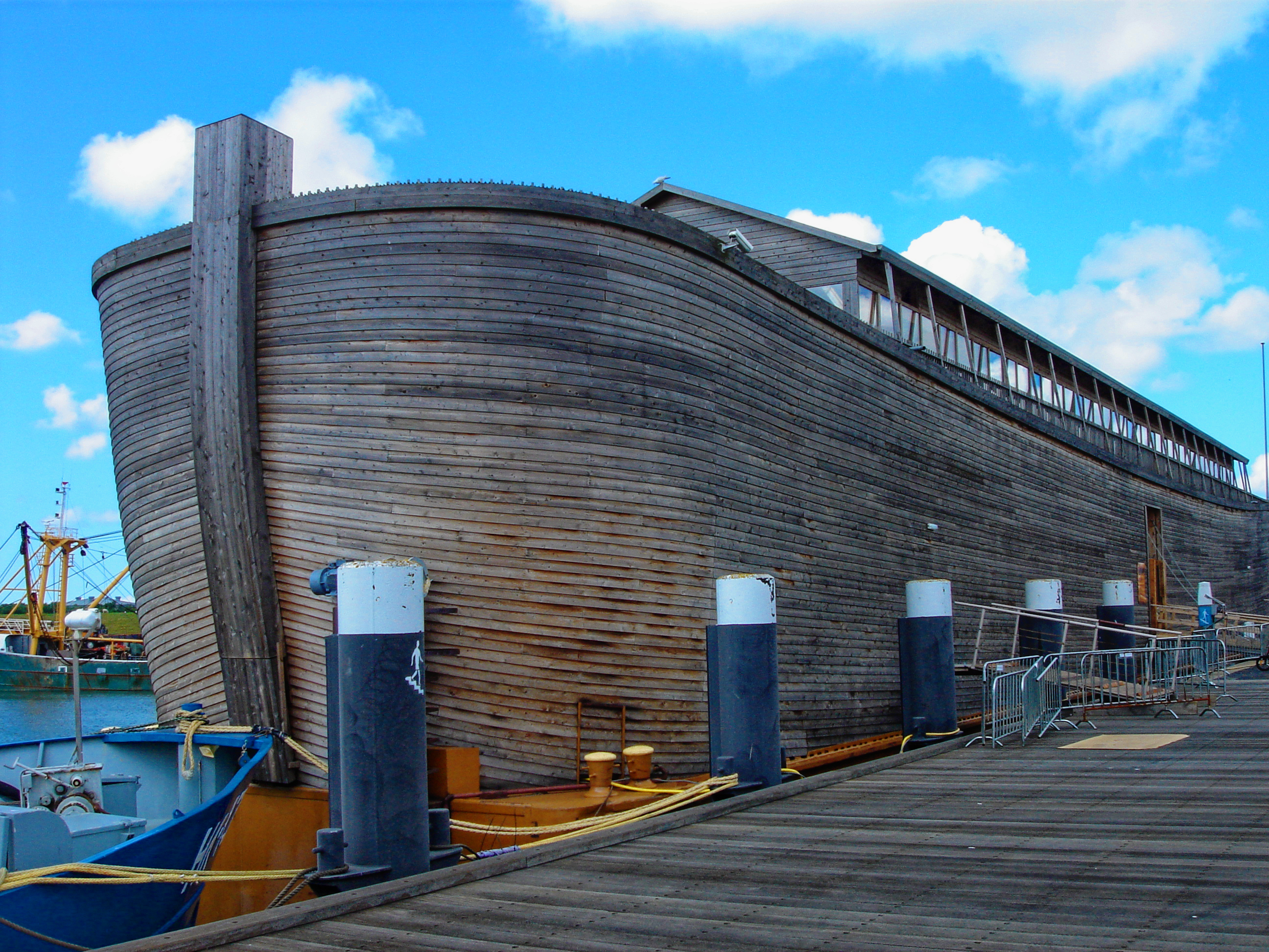 Oudeschild - Noah's Ark - View North